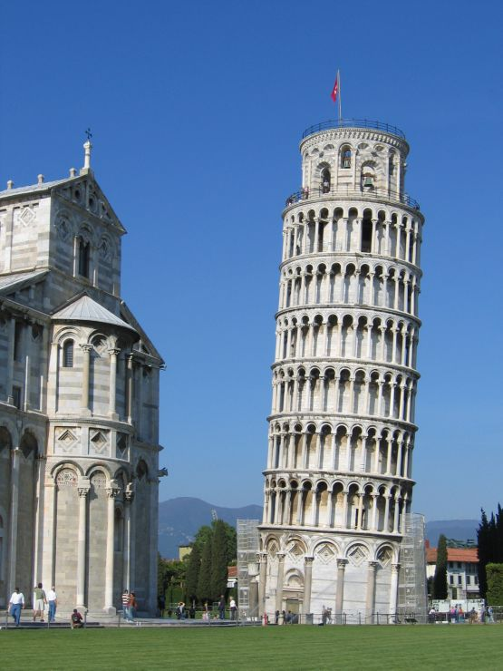 Leaning Tower of Pisa, Italy.They have tried to fix the lean of this tower several times. The most recent time, I believe, was in 2001 when they tried to drill into the ground and pour cement underneath the sandy surface.